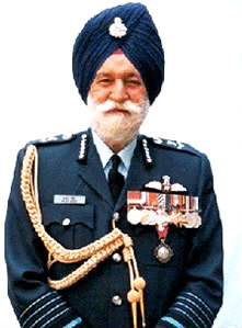 Arjan Singh Cropped This file is a cropped version.